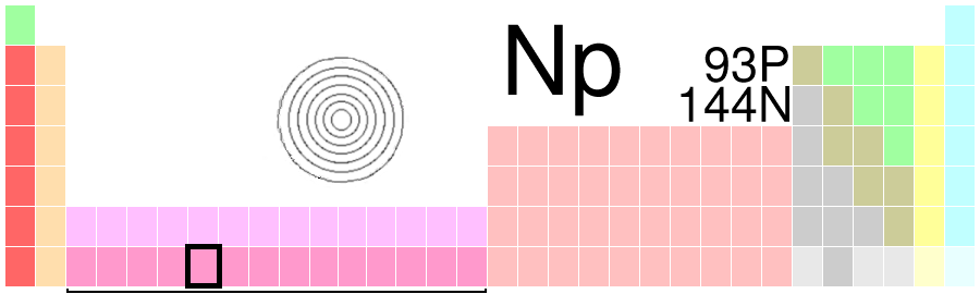 Created by User:Ahoerstemeier similar to the other element boxes